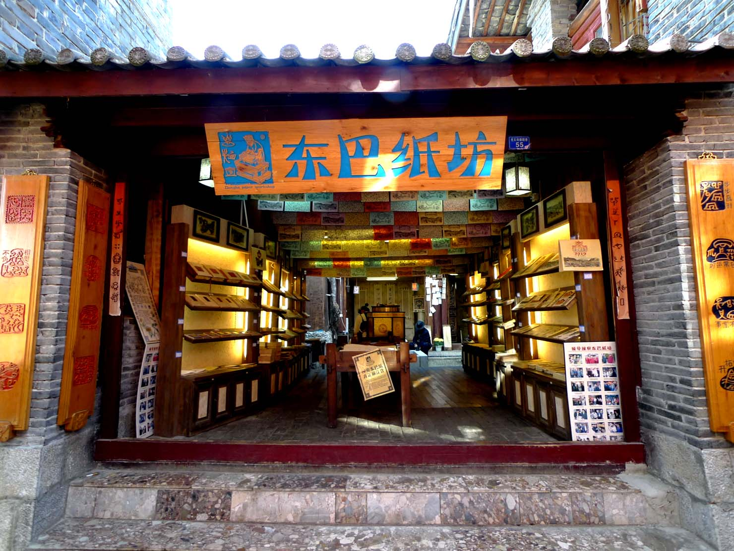 Yunnan old city of Lijiang, Dongba paper shop